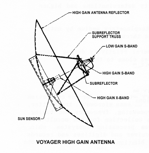 Voyager high-gain antenna schematic